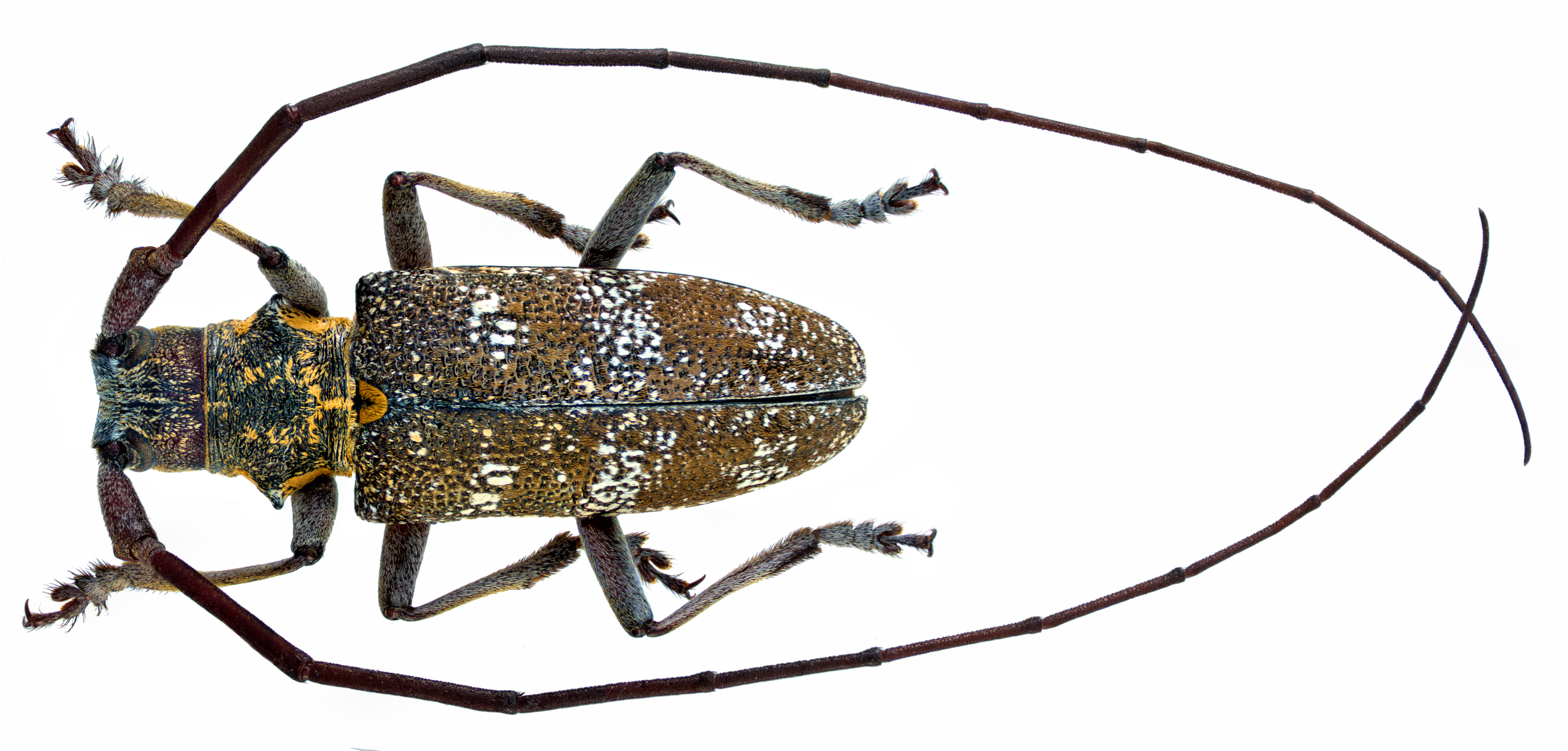 Family: Cerambycidae Size: 18,5 mm (12-25 mm) Origin: Europe Ecology: development in pines Location: Spain, Costa Blanca, Altea leg. H.Hechelmann, VIII.1985; det. U.Schmidt, 1985 Photo: U.Schmidt, 2014